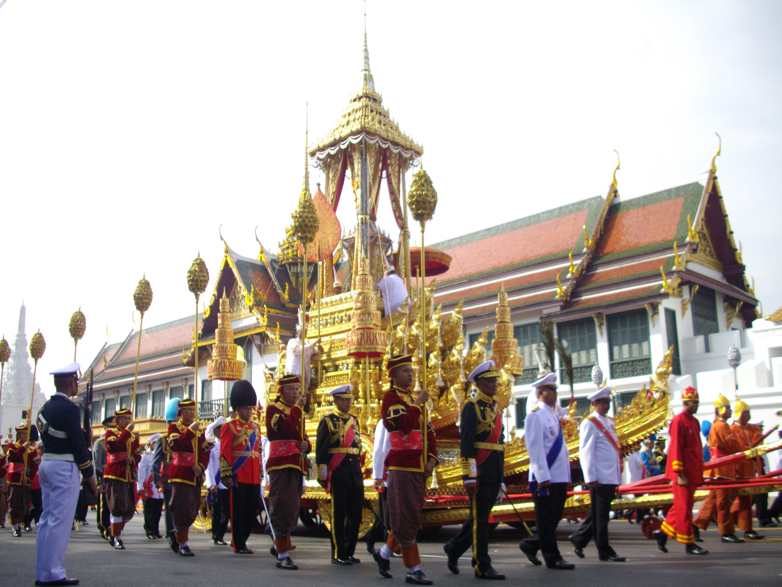 The procession brought Princess Galyani Vadhana's Urn to Sanam Luang. The Urn was placed on Phra Mahaphichaiya Ratcharot (The Great Chariot of Victory) which was pulled forwards by the soldiers. In the picture, the procession was passing by the Sutthaisawanya Prasat Hall (The Hall of Pure Power).